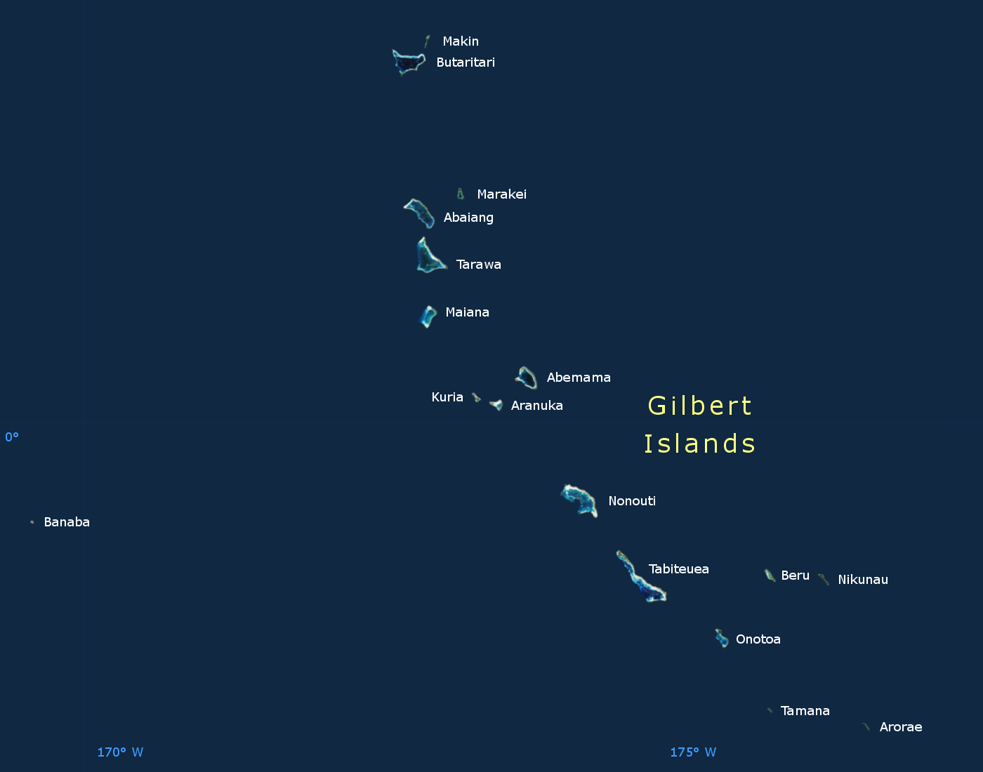 Map of Gilbert Islands and Banaba Island in the Pacific, belonging to island nation Kiribati.